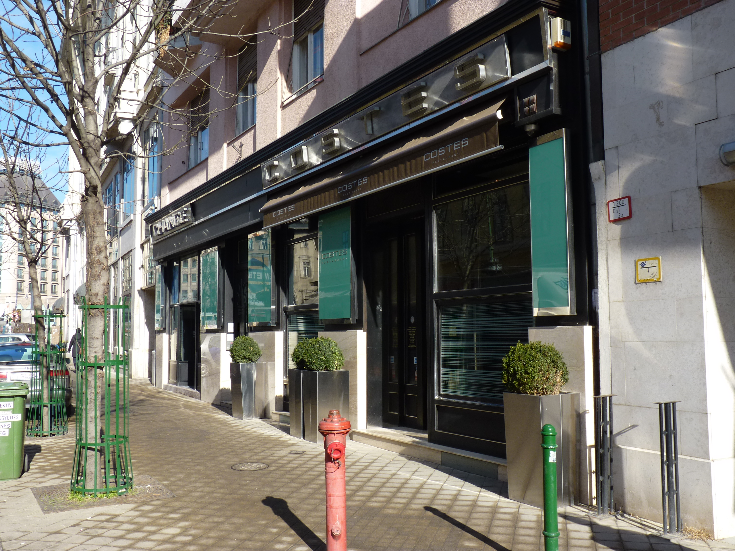 Costes Restaurant, Ráday Street, Budapest